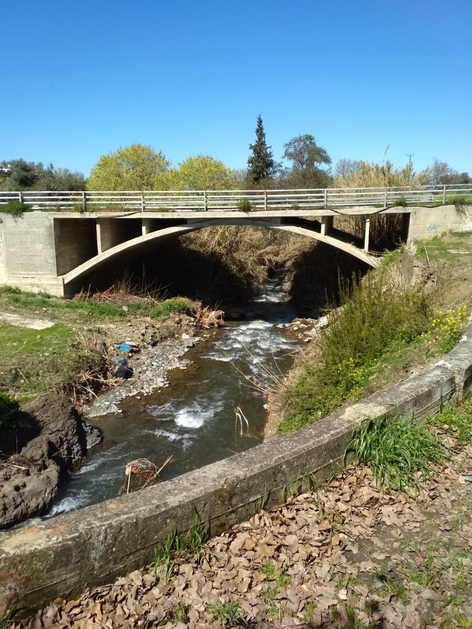 View of the river Karkotis (or Klarios) at the site of the bridge connecting the villages of Evrychou and Korakou (located in the valley of Solea)